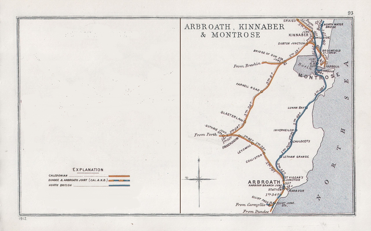 File:Finchley Road Arbroath, Kinnaber & Montrose RJD 93.jpg with Finchley Road map airbrushed out This is a derivative work of the public domain The original map is by Railway Clearing House, dated 1912